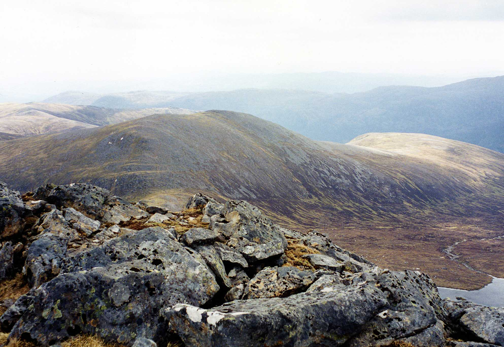 Personal picture taken by Mick Knapton